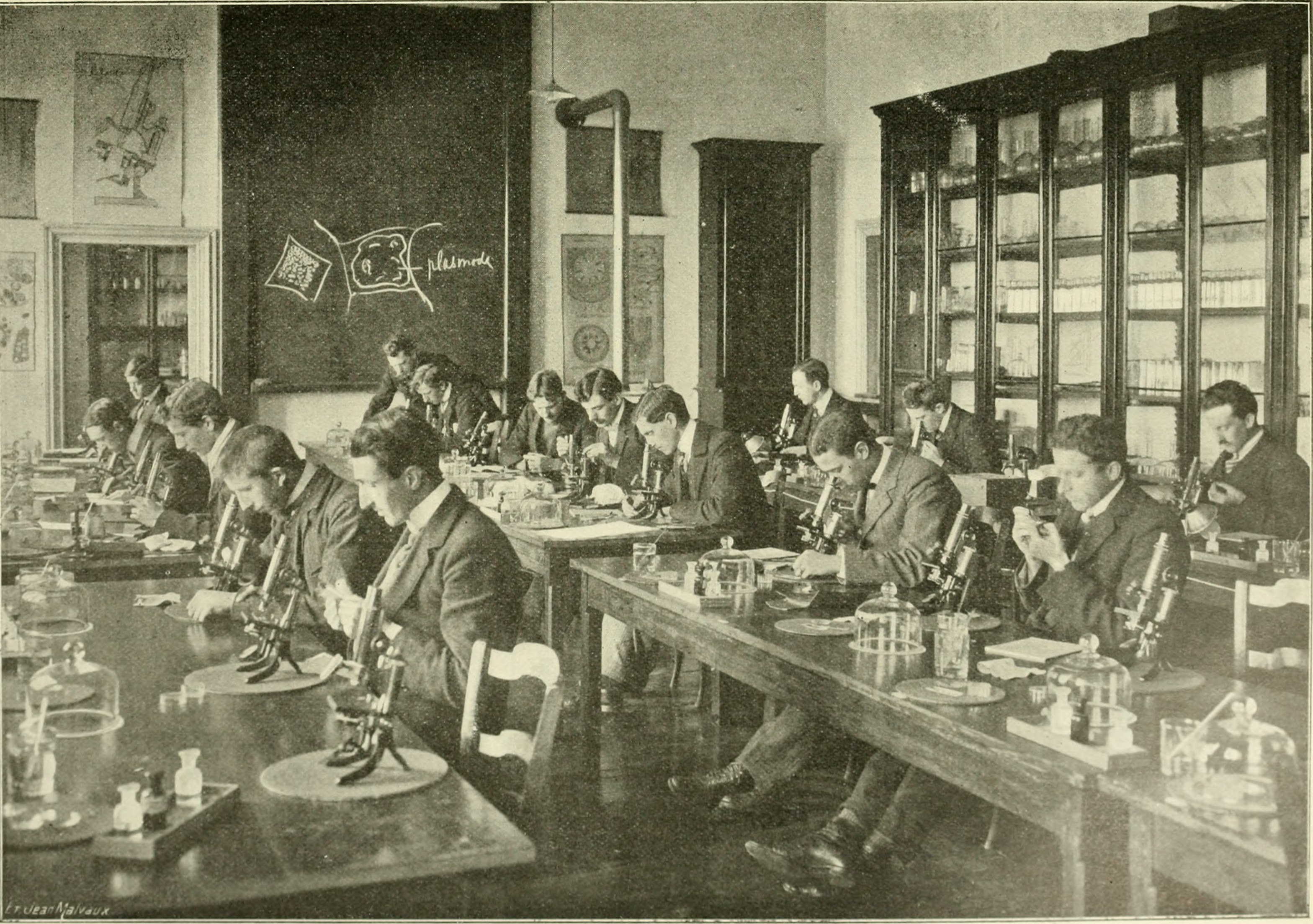 Title: Actes du IIIme Congres international de botanique : Bruxelles 1910 Year: (1910)-(1912) ((190s) Authors: International Botanical Congress (3rd : 1910 : Brussels, Belgium); Wildeman, E. de (Emile), 1866-1947 Subjects: Botany Publisher: Bruxelles : A. De Boeck Text Appearing Before Image: ' Text Appearing After Image: '